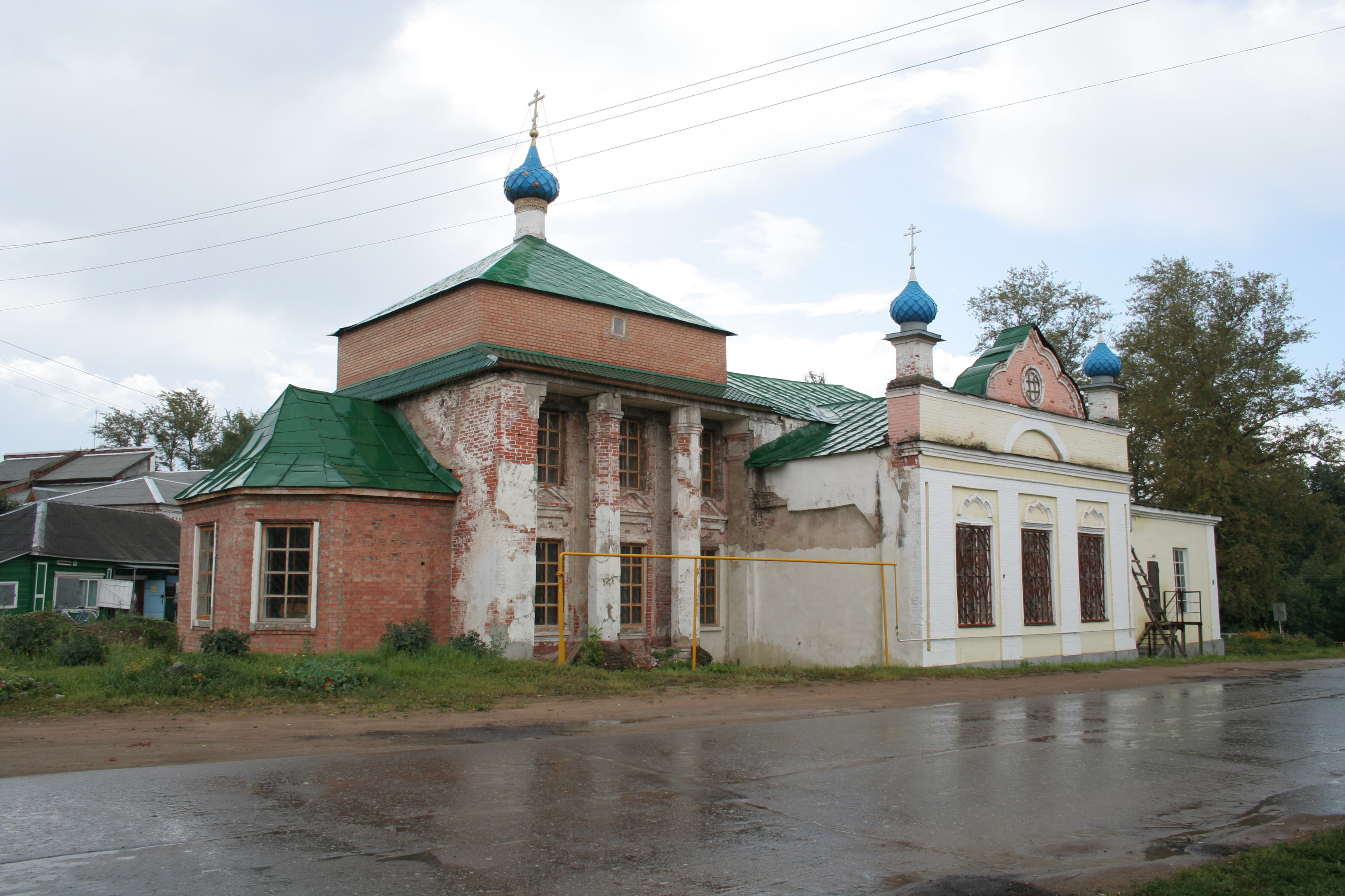 Church of the Nicholas in Gavrilov-Yam, Yaroslavl Oblast, Russia